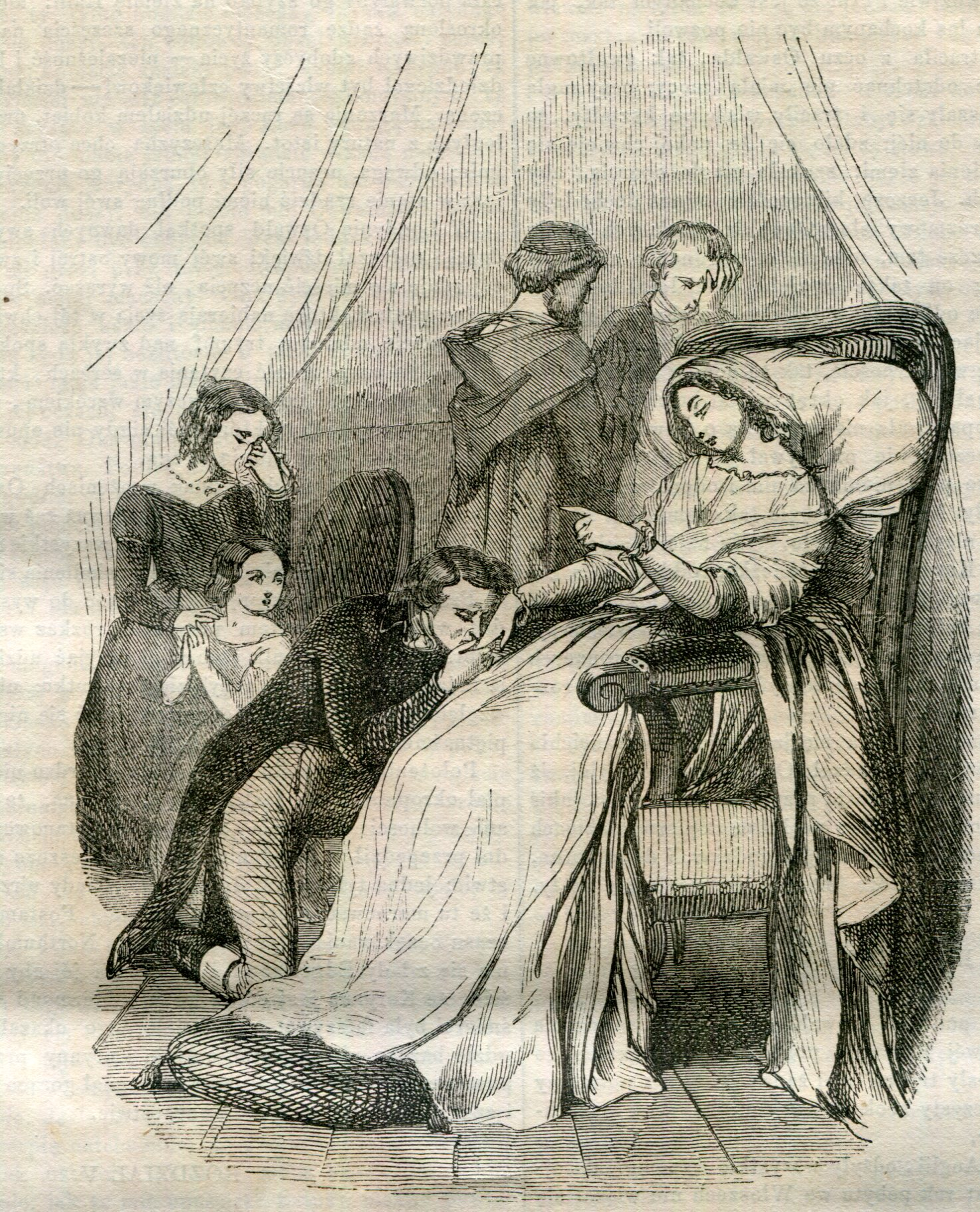 Illustration from Corinne ou l'Italie by Germaine de Staël: Corinna's death